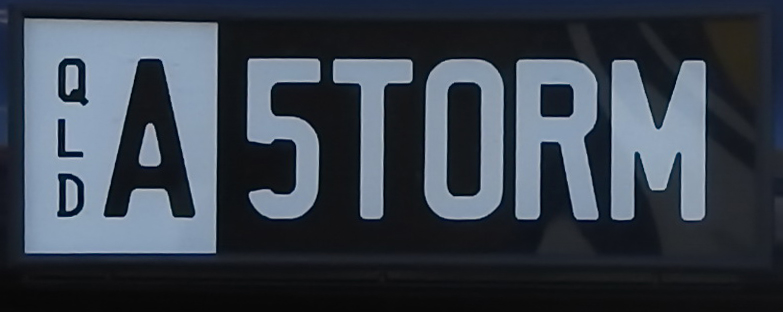 PPQ launched the A Signature Plate Series in 10/2012. Retail price was $2 500